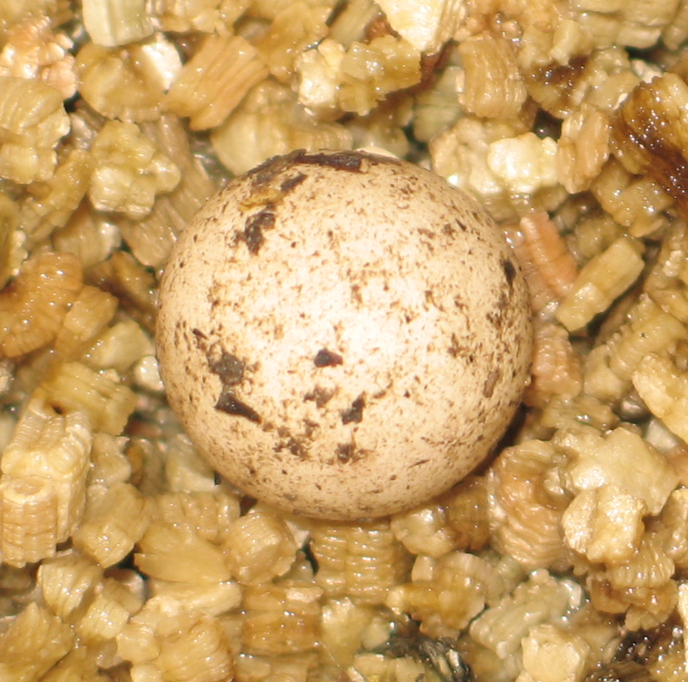 An egg of Uroplatus sameiti (a gecko). About 1 cm of diameter. A personnal picture of an egg of my own geckos.